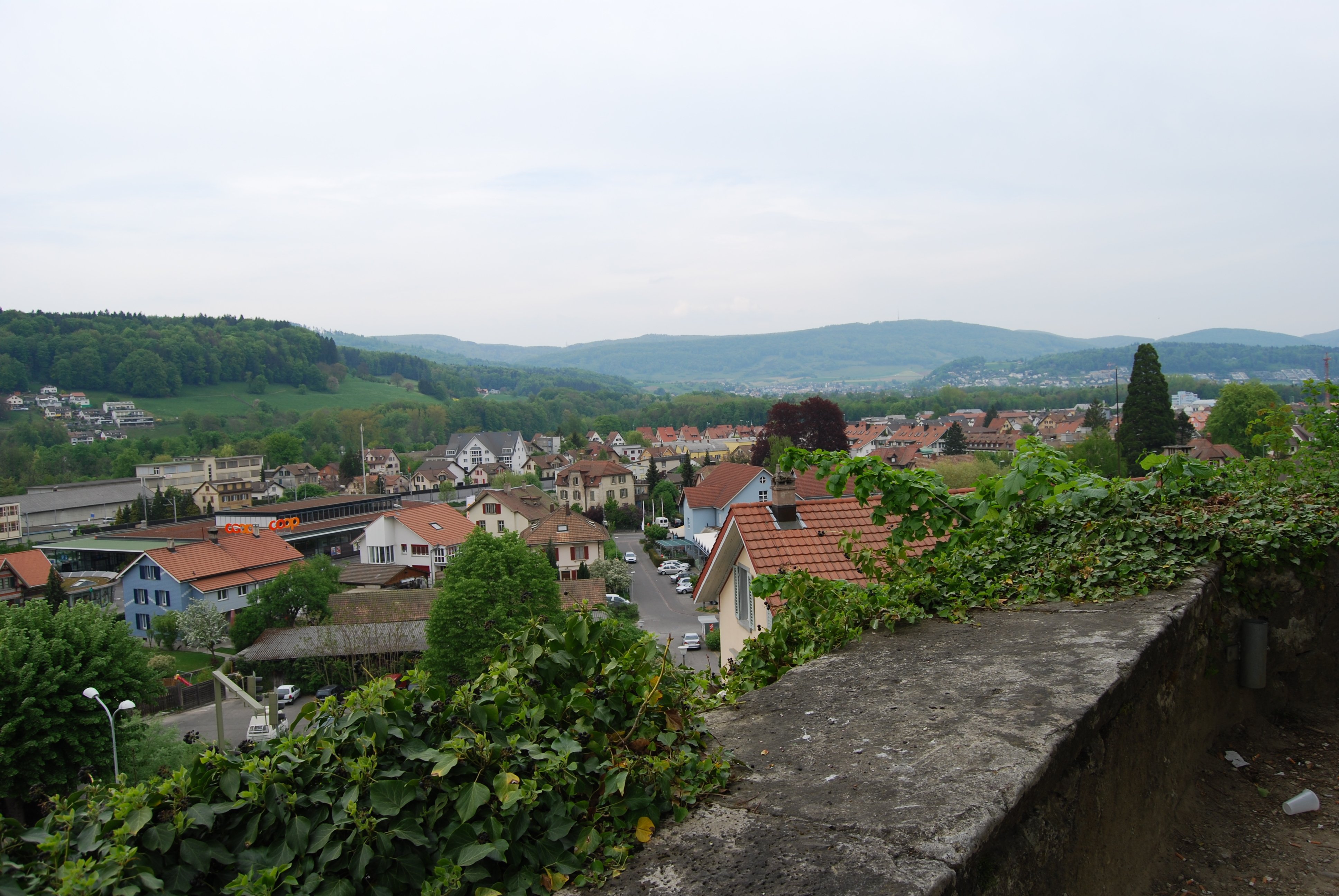 Schönenwerd, canton of Solothurn, Switzerland